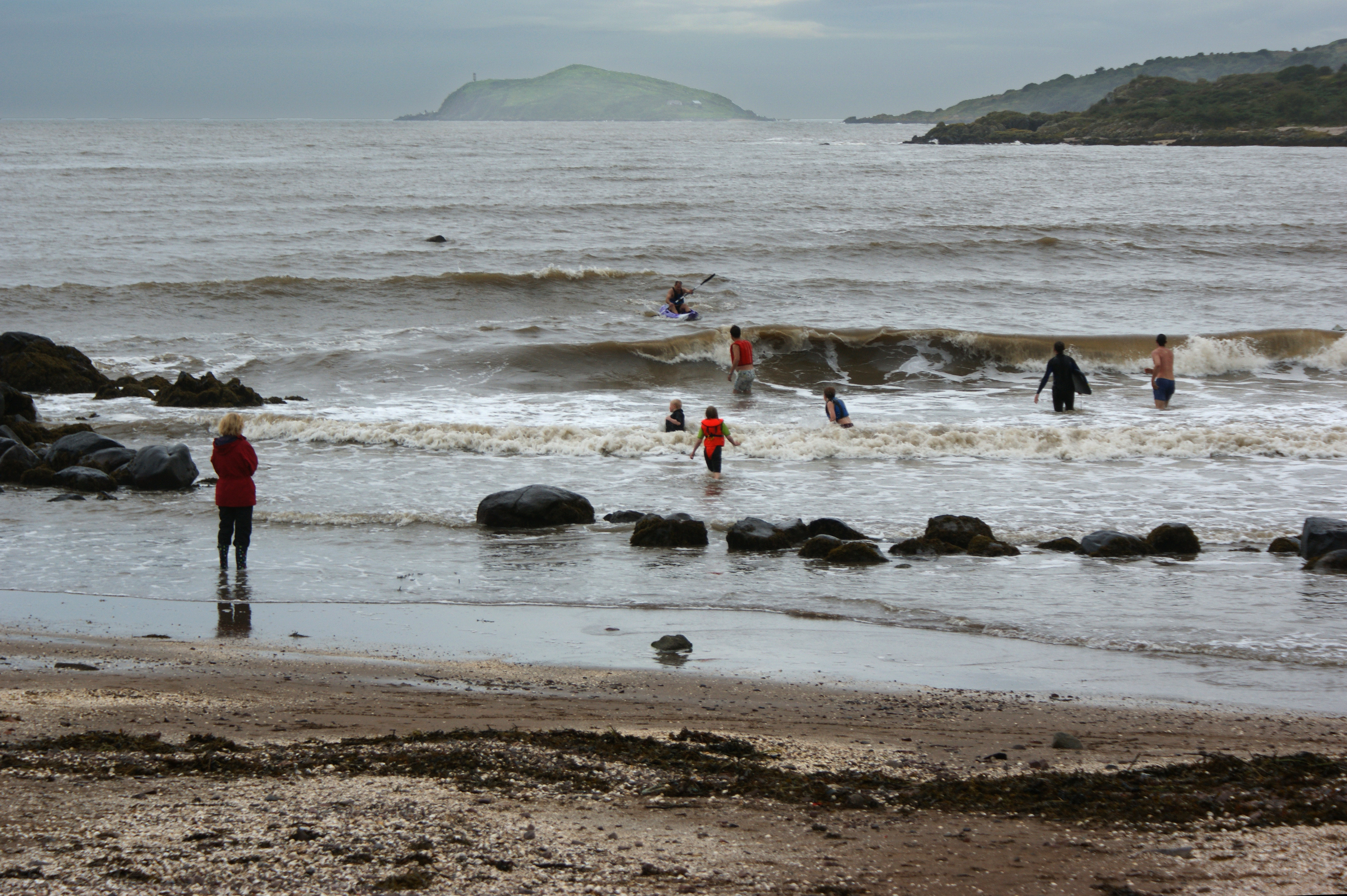 Rollers at Rockliffe "Come on in, the water's lovely"